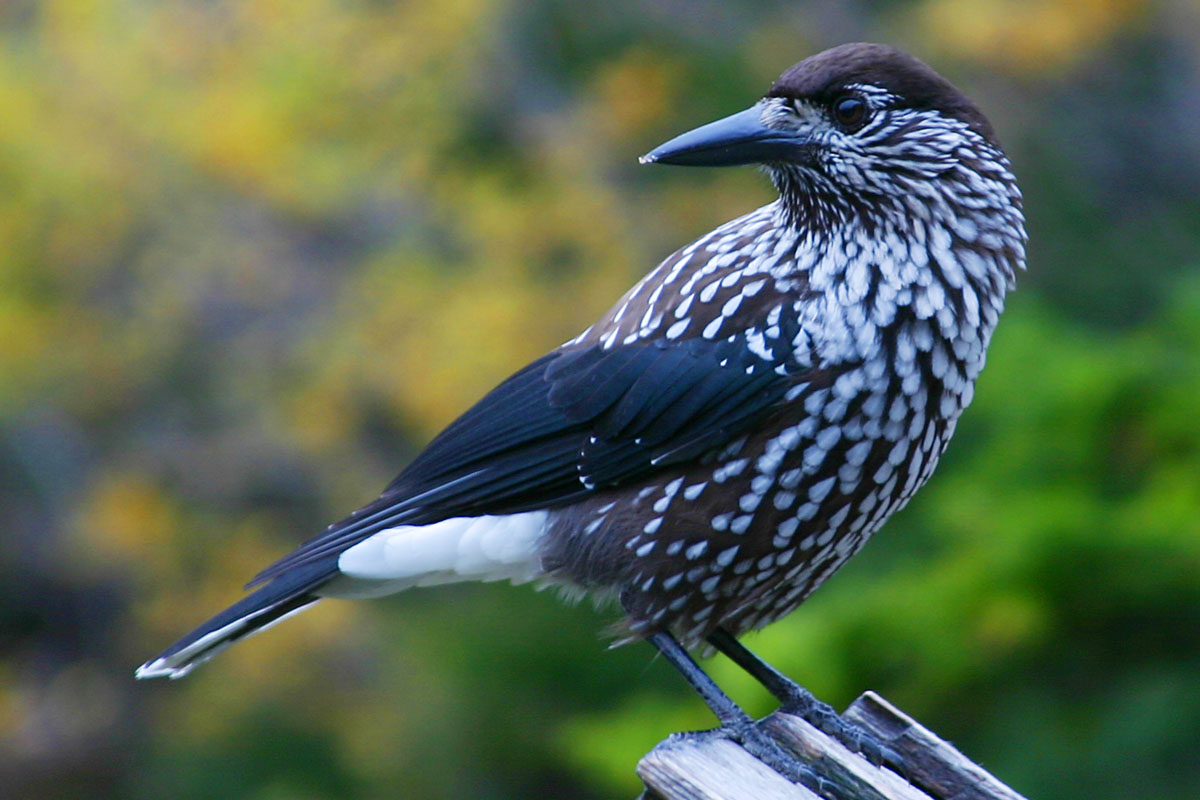 A Spotted Nutcracker, as seen near Morskie Oko, in the Tatras National Park, in Poland. (07 Oct 2007)